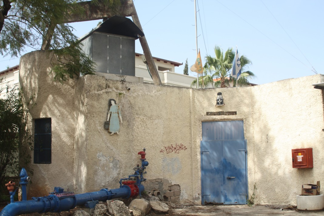 non-active well, Ramat Hasharon